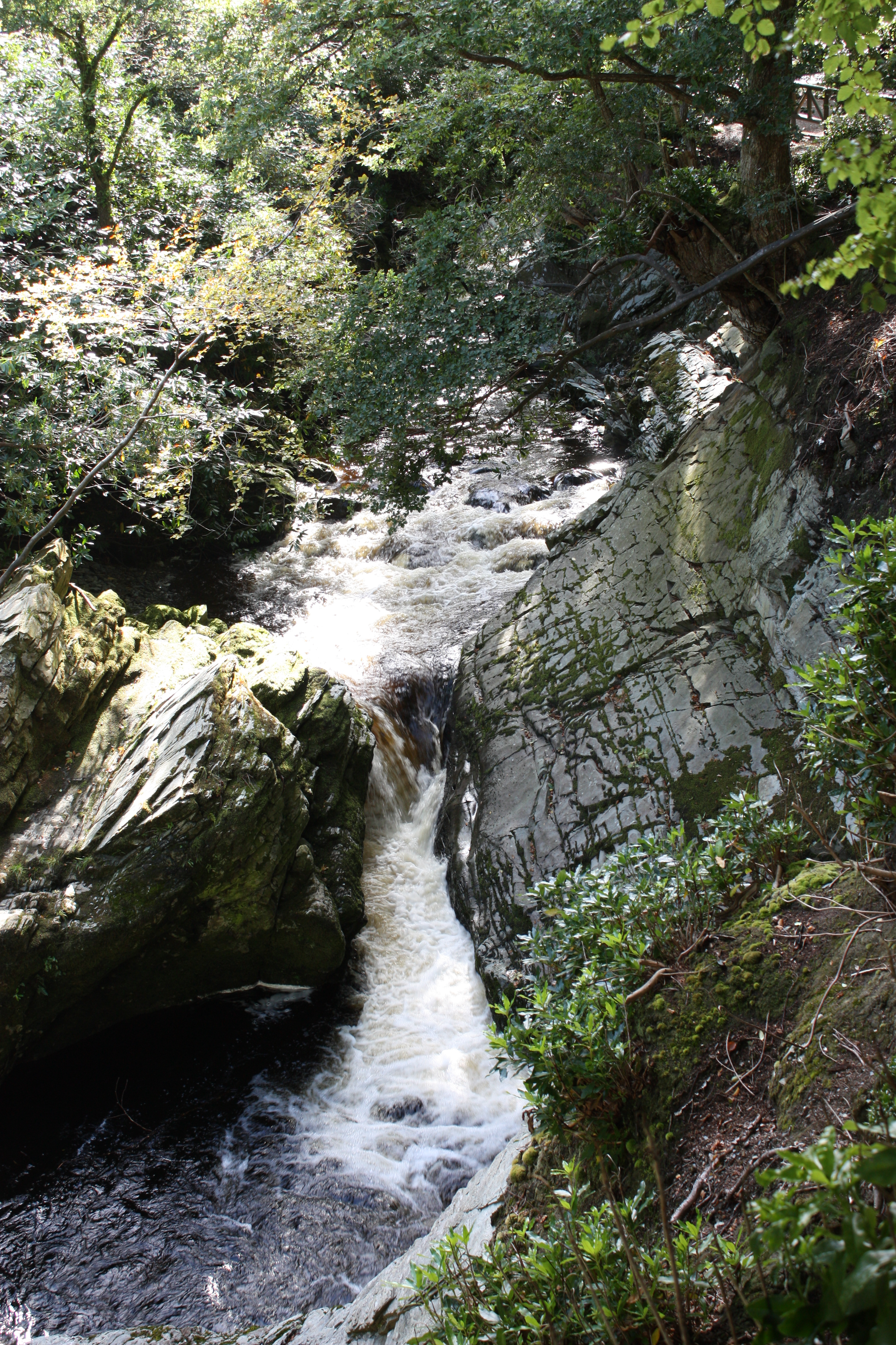 Shimna River, Tollymore Forest Park, Bryansford, County Down, Northern Ireland, September 2010